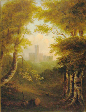 Lady Anne was an accomplished travel-writer, artist and socialite of the time. The picture is believed to be of Raby Castle, the seat of Lord Barnard's family since 1626.